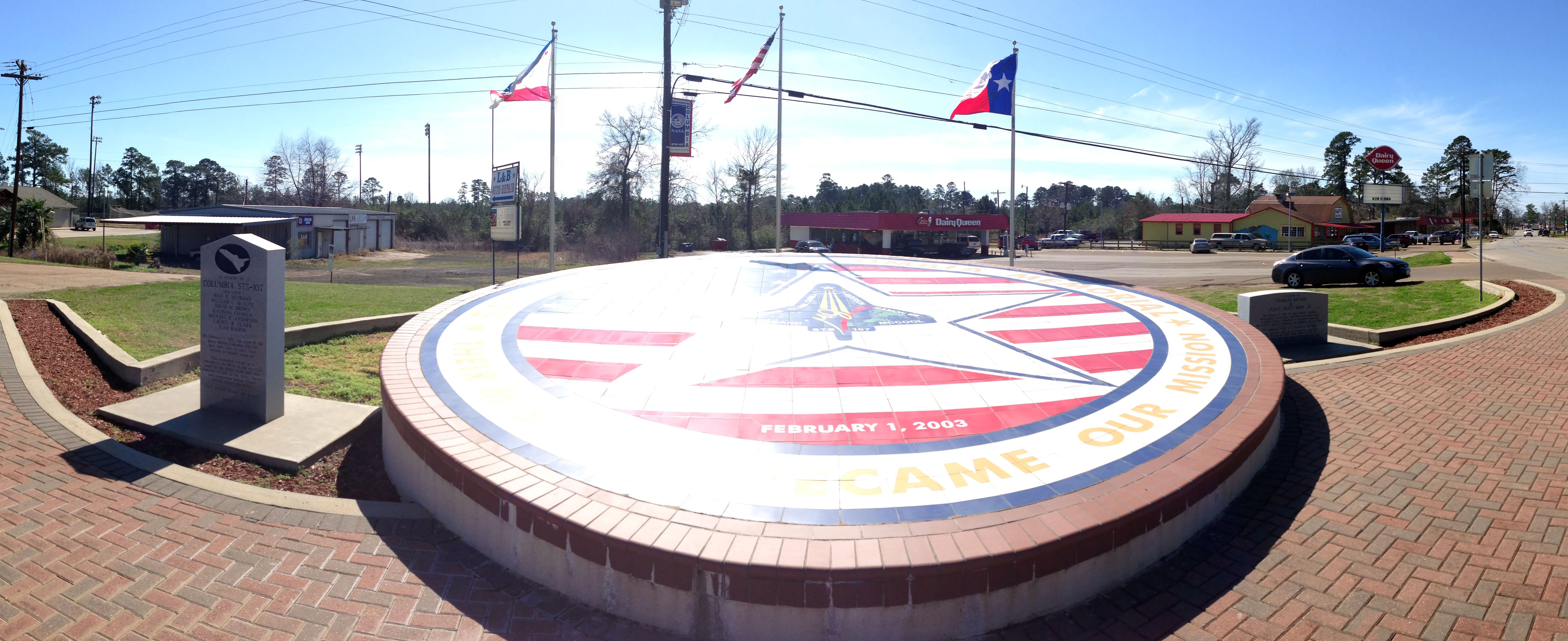 Space Shuttle Columbia memorial - Hemphill, TX